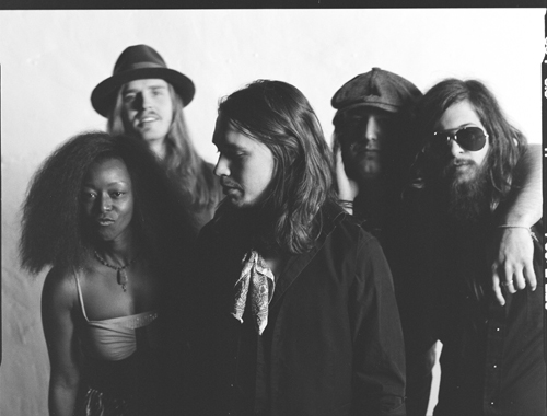 Photo taken by Darren Ankennman for Atlantic Records recording artist Jonathan Tyler & the Northern Lights.